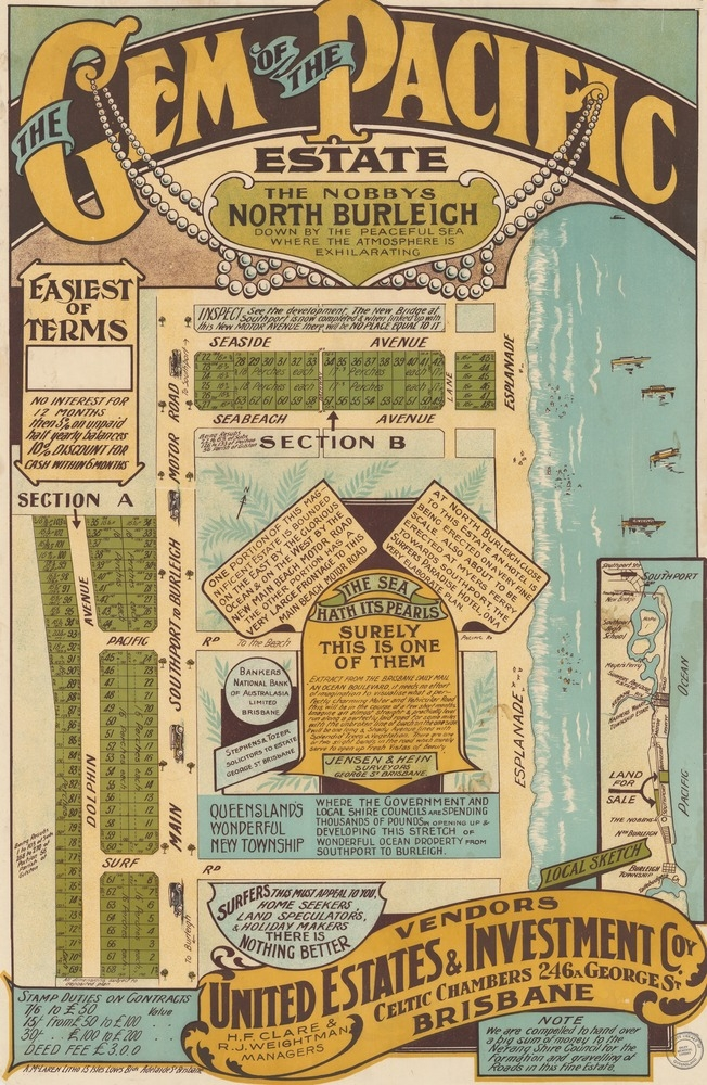 Creator: United Estates & Investment Co., Vendors ; Jensen & Hein, Surveyors. Location: North Burleigh, Gold Coast, Queensland. Description: 72 x 48 cm. Map includes conditions of purchase, locality map and a brief description of the land and public transport available. Read more about SLQ's map collections: View this image at the State Library of Queensland: Information about State Library of Queensland’s collection: You are free to use this image without permission. Please attribute State Library of Queensland.